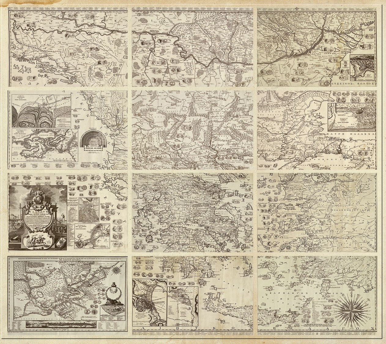 Charta of Greece / Rigas Charta, Rigas Velestinlis, 1797